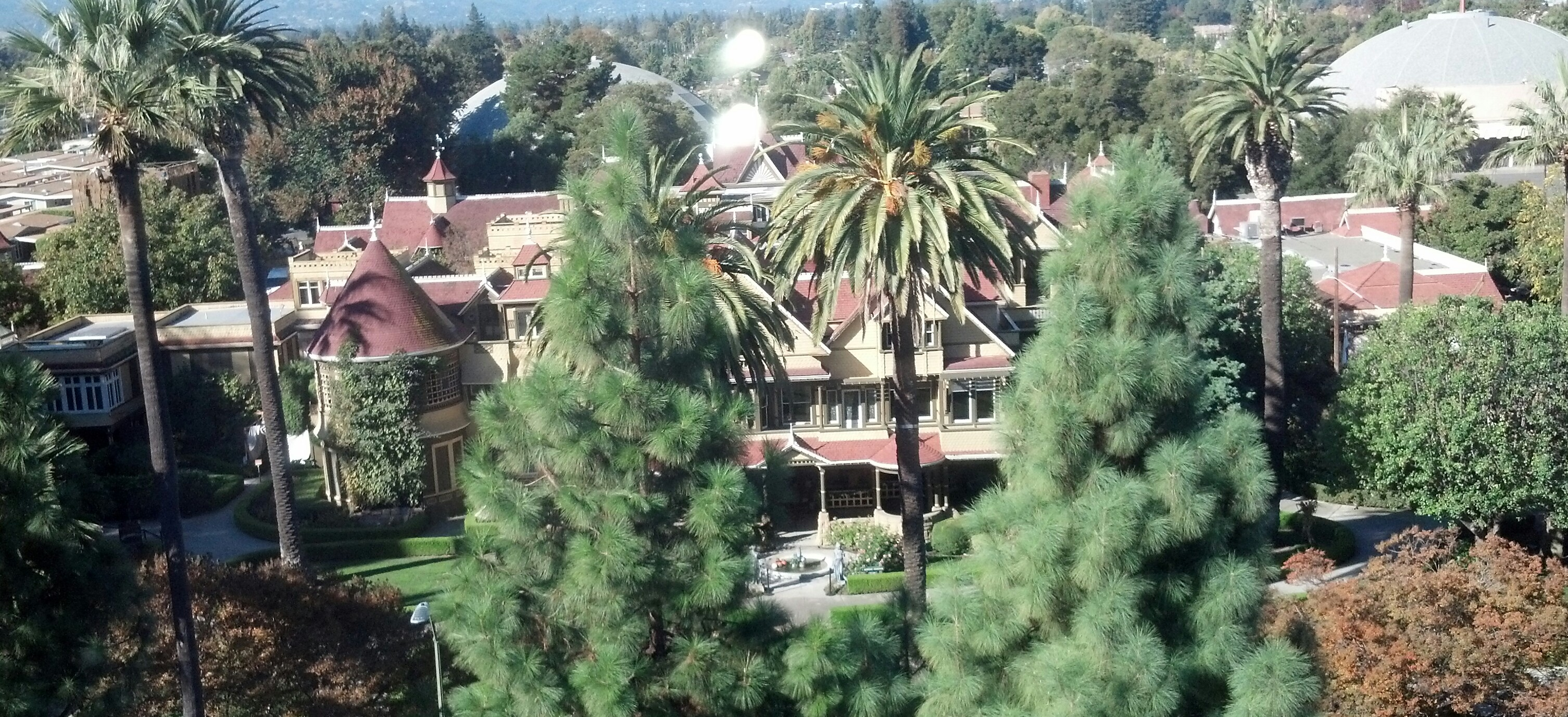 The Winchester Mystery House, as seen from a nearby high rise, the Belmost Living of San Jose Senior Housing. Photo by Jim Heaphy.